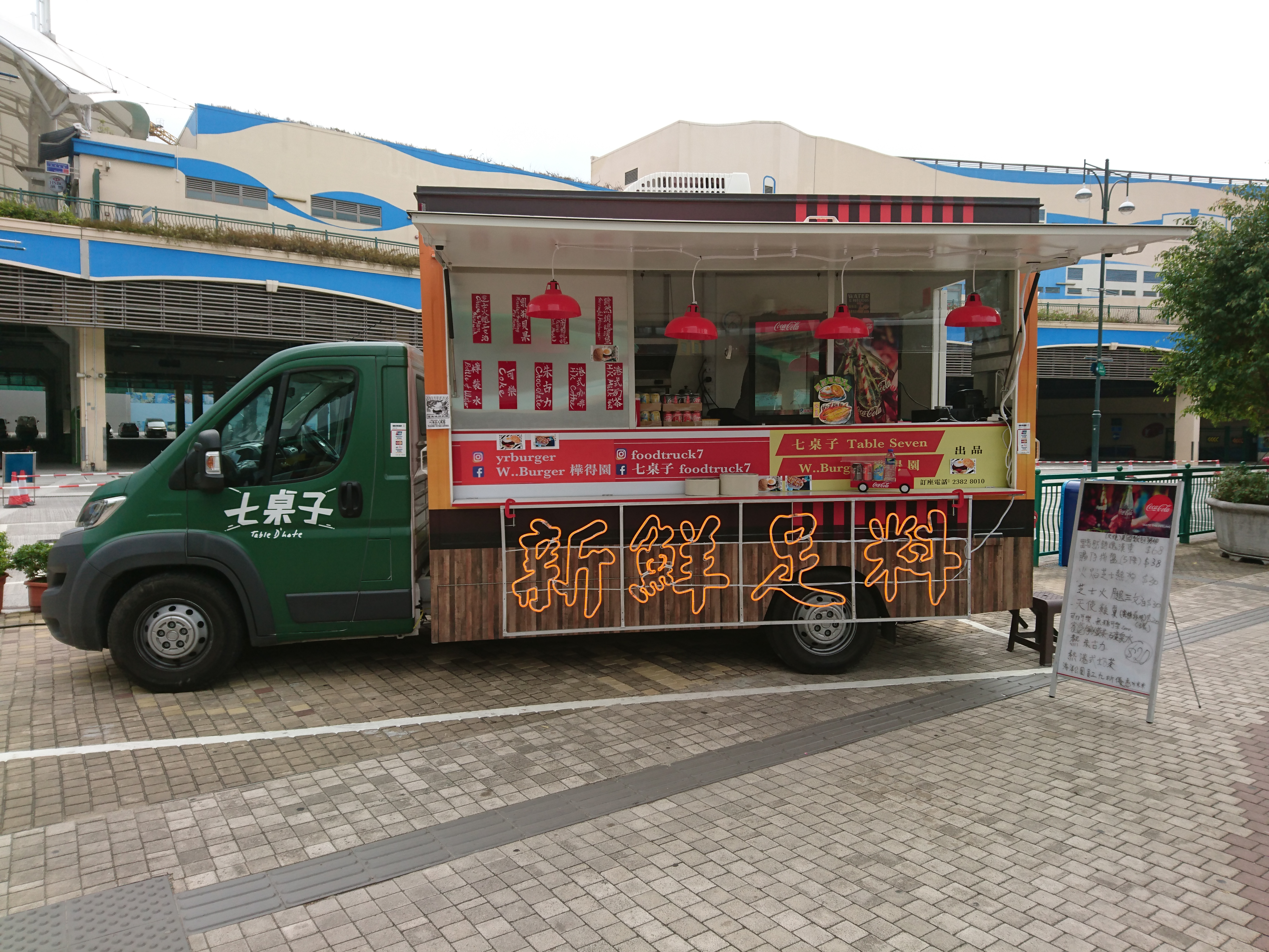 Table Seven Food Truck at Ocean Park